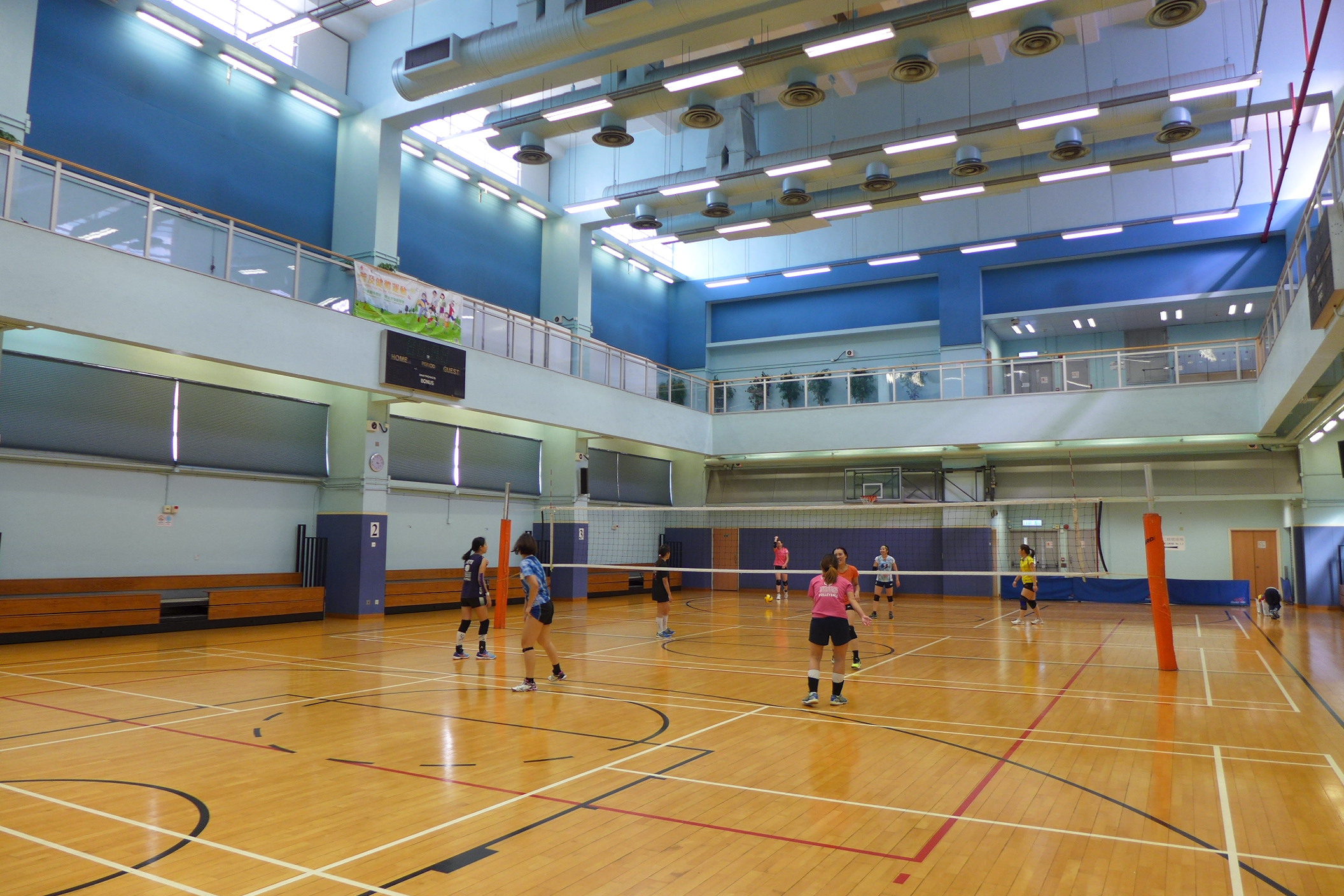 Lockhart Road Sports Centre Arena